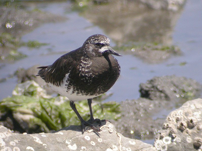 The Black Turnstone Arenaria melanocephala, breeds along the coasts of Alaska and spends winters along the west coast of North America, a range much smaller than its Ruddy Turnstone cousin. In Alternate or "breeding" plumage it develops some white feathering to add interest to the face.